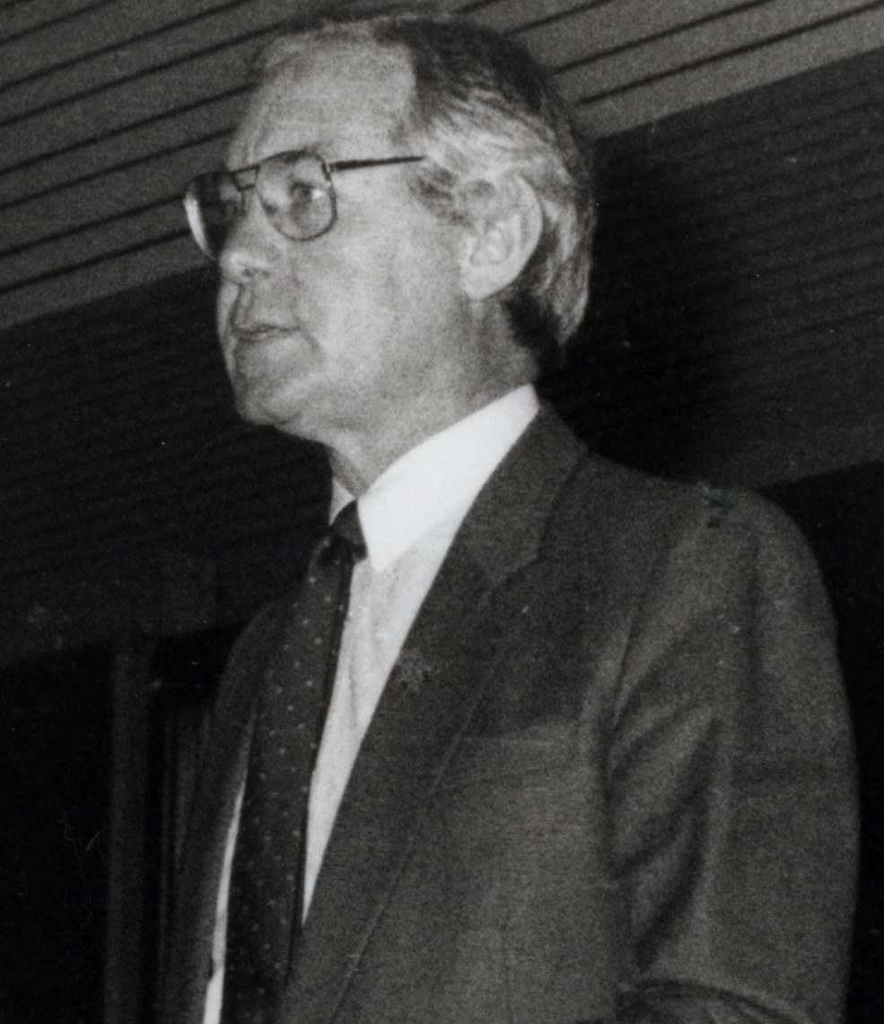 Central Institute of Technology; Russell Marshall, Minister of Education, 1984-1987.